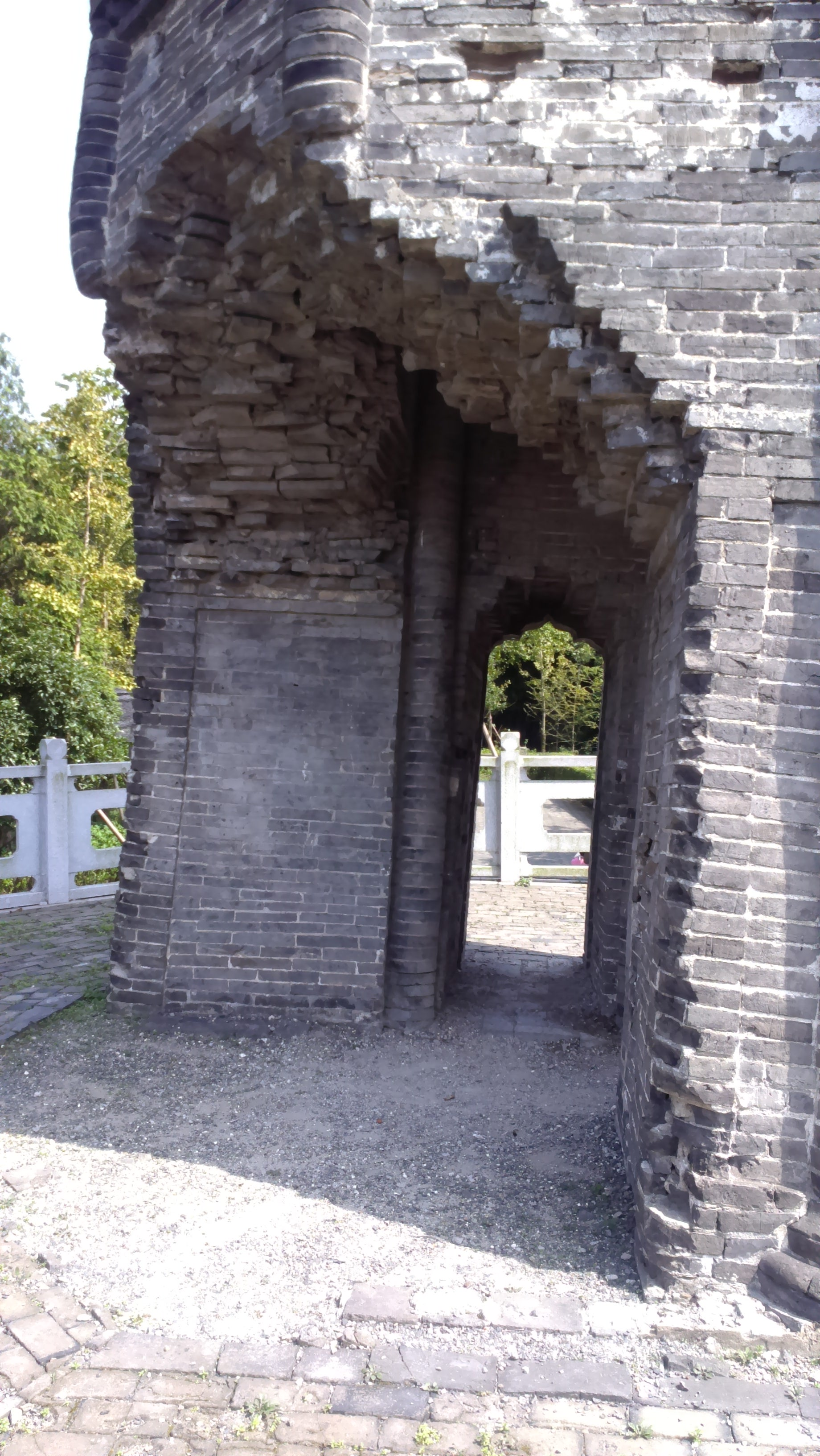 HuZhu Tower in TianMa Mountain,Songjiang, Shanghai, China